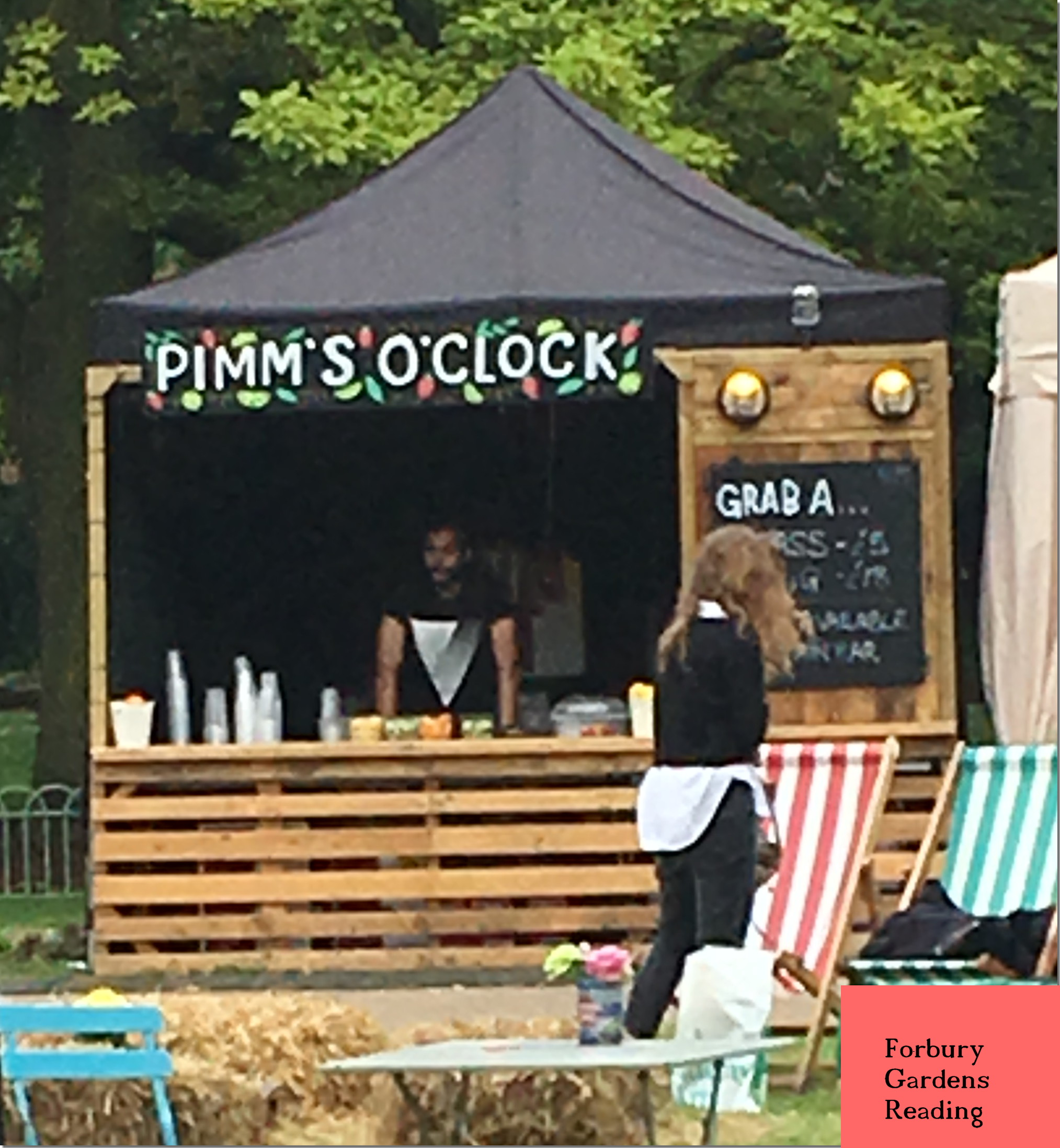 Pimm's stall in Forbury Gardens, Reading